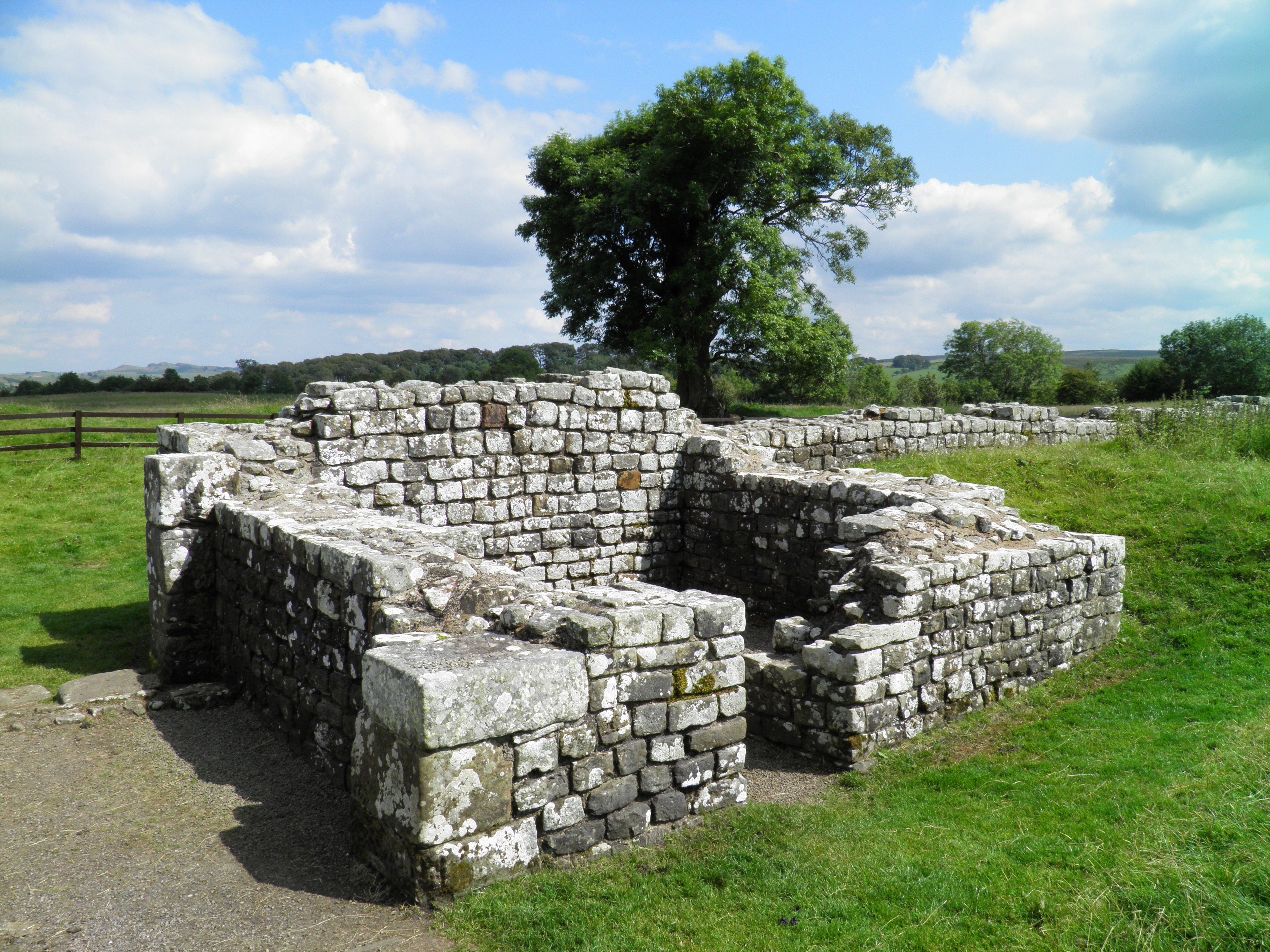 Birdoswald Roman Fort, Hadrian's Wall